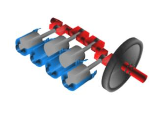 Computer animation of the powertrain of the Wright brothers' 1903 aircraft engine